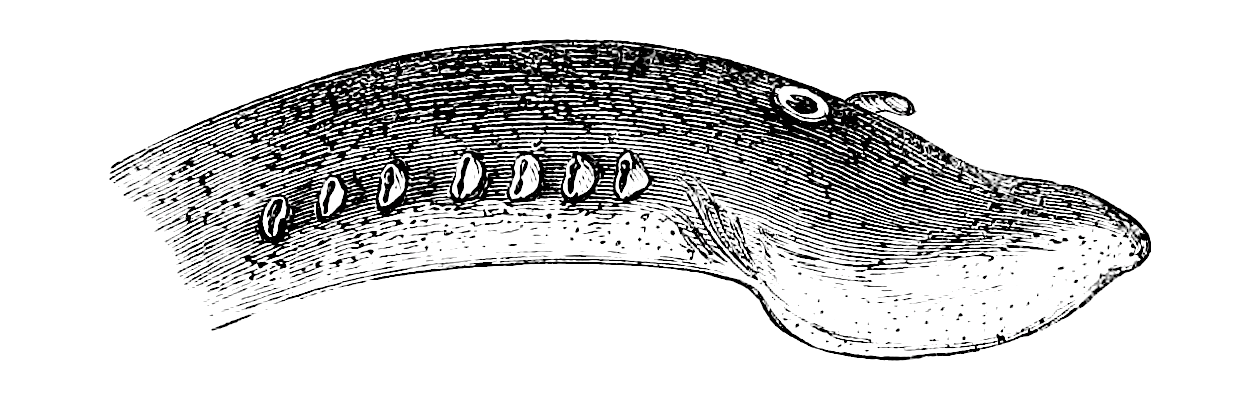 Fig. 2.—Head of Mordacia mordax, showing the single nostril, and seven branchial openings, from An Introduction to the Study of Fishes, page 39